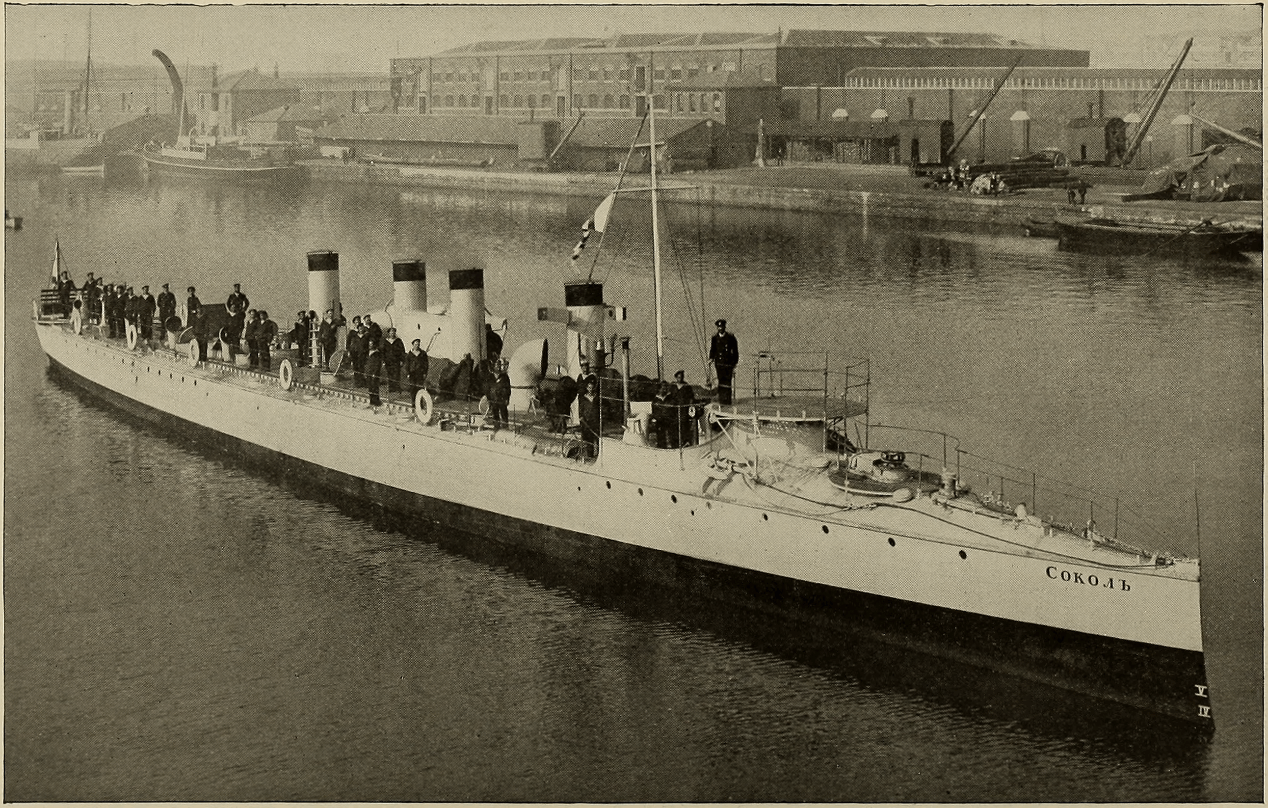 Cassier's Magazine of November 1897 had an article on page 83-92, titled Alfred Fernandez Yarrow. A Biographical Sketch. It was accompanied by a number of illustrations, including this photo of the Yarrow-built Russian destroyer Sokol, "on the point of leaving England for Russia", on page 88.